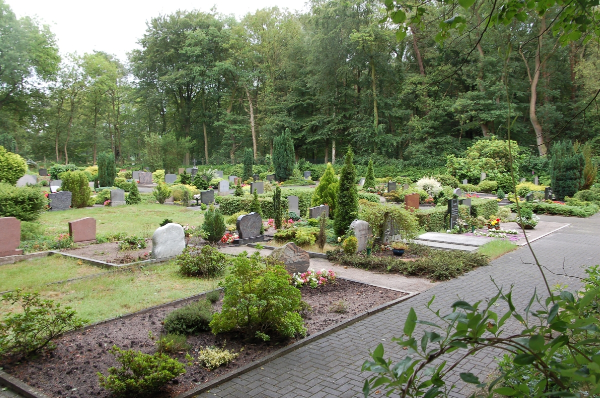 Pictures